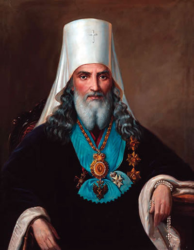 Portrait of Nikanor (Klementevsky), Metropolitan of Saint-Petersburg